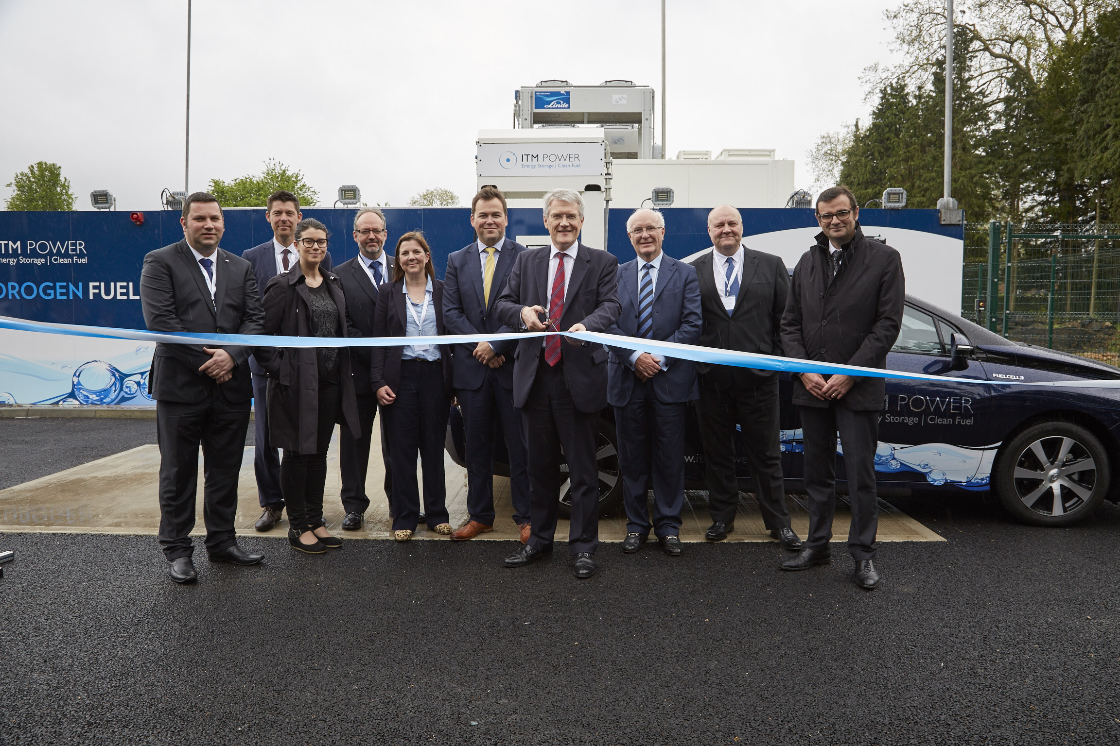 Hydrogen Station opening by Andrew Jones (British politician) MP, Transport Minister at the Department for Transport